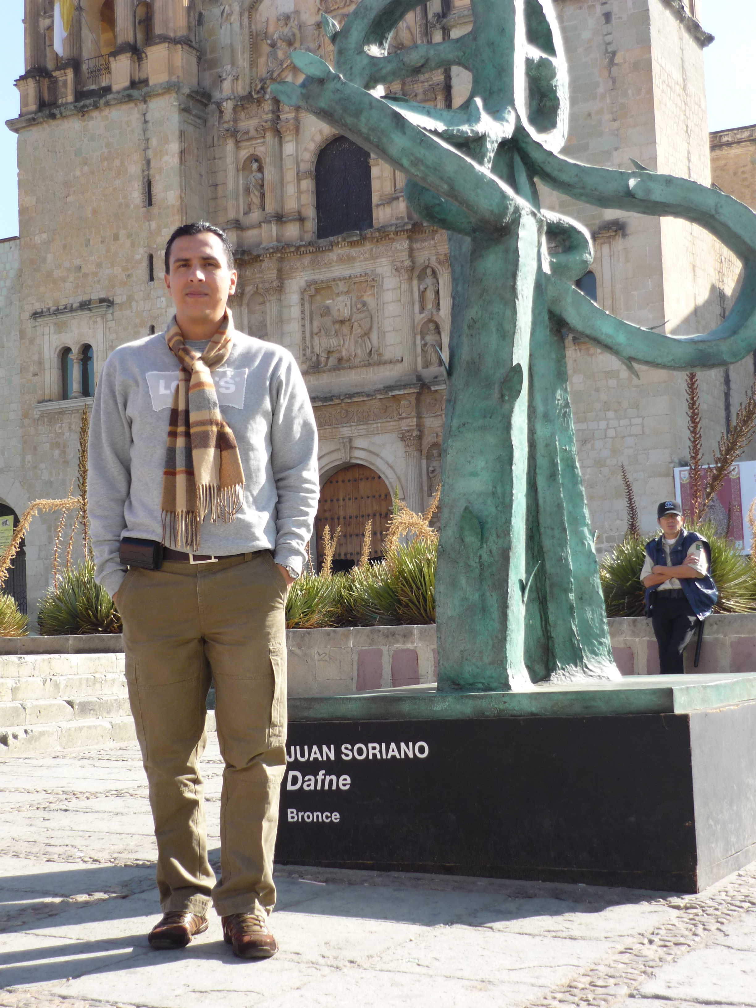 Picture of dr. Rogelio Morales Borges